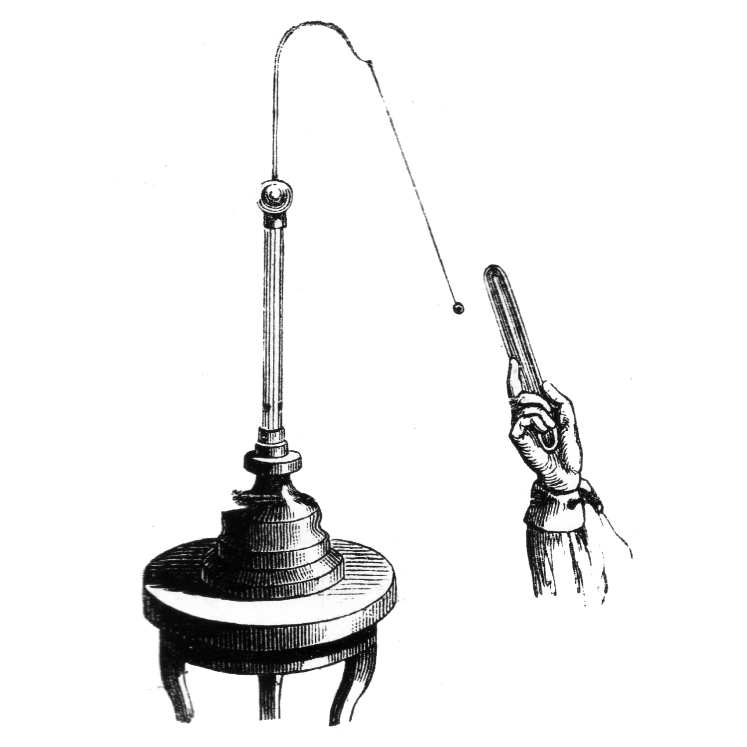 Drawing of a pith ball electroscope, invented 1754 by John Canton. The ball is shown attracted to an electrically charged object held in the hand.